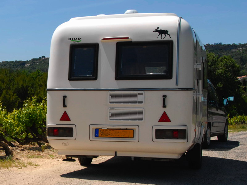 Biod 420TL, modeljaar 2001